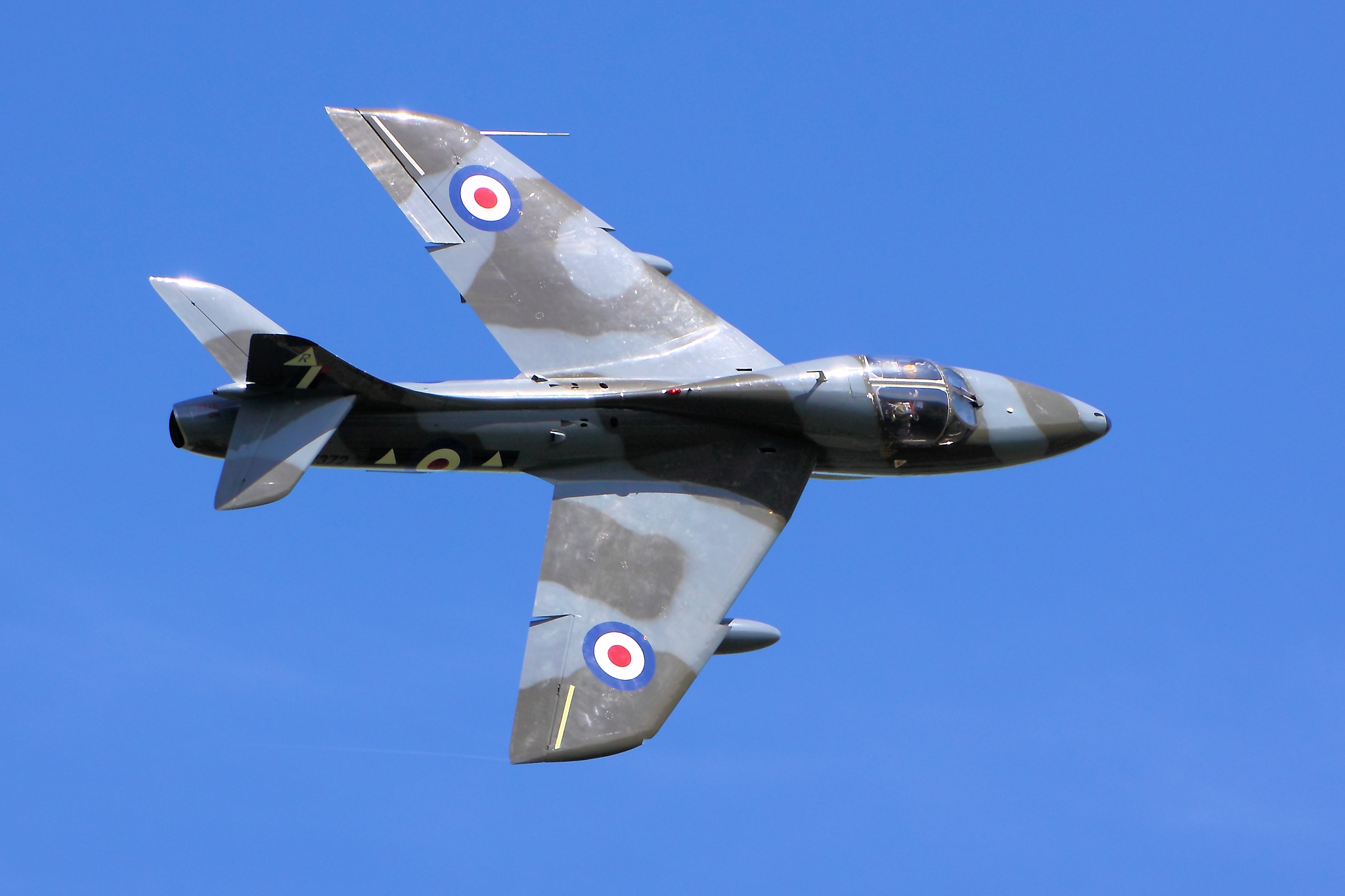 Hunter - Shuttleworth Military Pageant June 2013